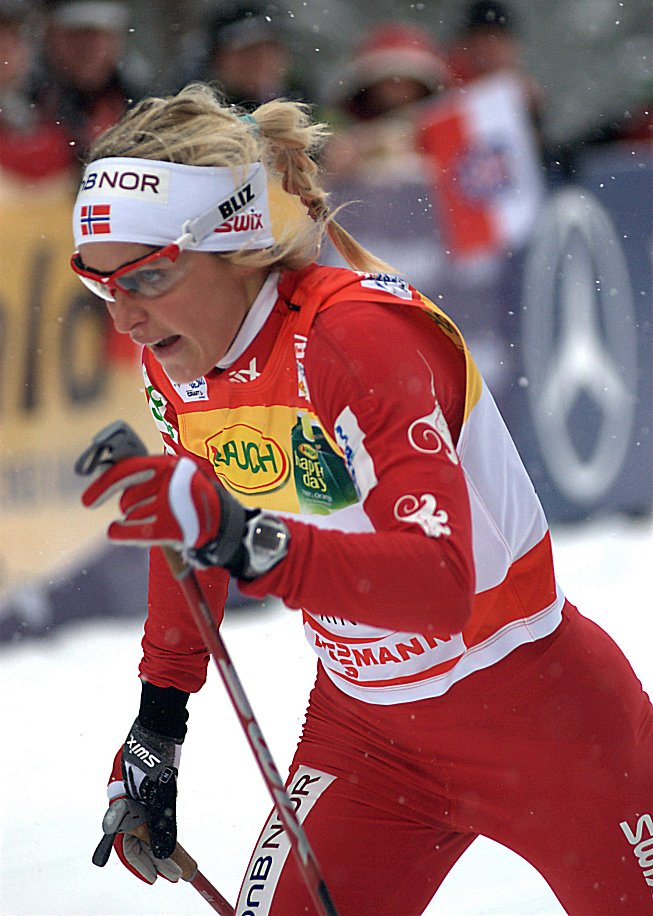 Therese Johaug at the Tour de Ski 2010 in Oberhof